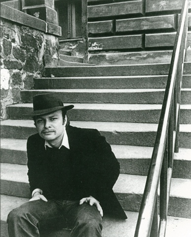 Jaromír Pelc